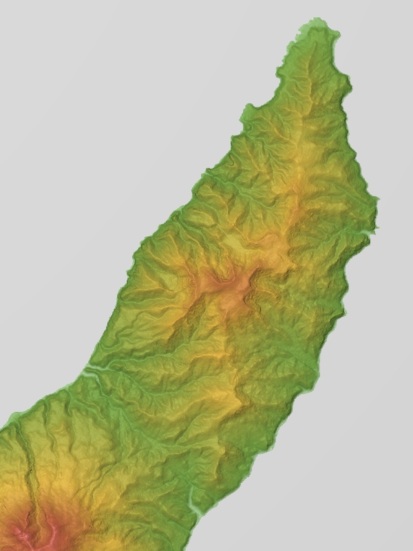 Shiretokodake (Mount Shiretoko) is a volcano in Shiretoko Peninsula, Hokkaido, Japan.